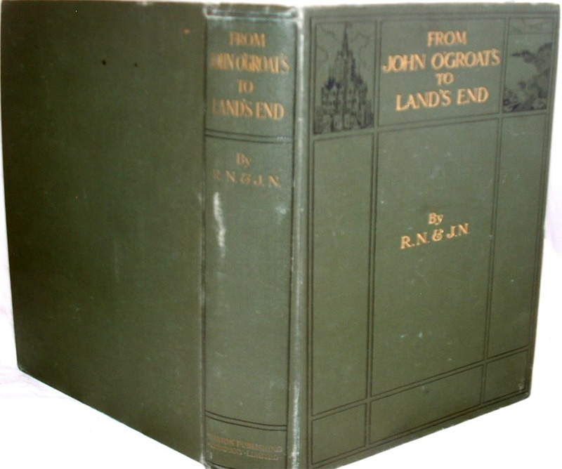 Book Cover of John Naylor's Book "From John O'Groats to Land's End" published in 1916